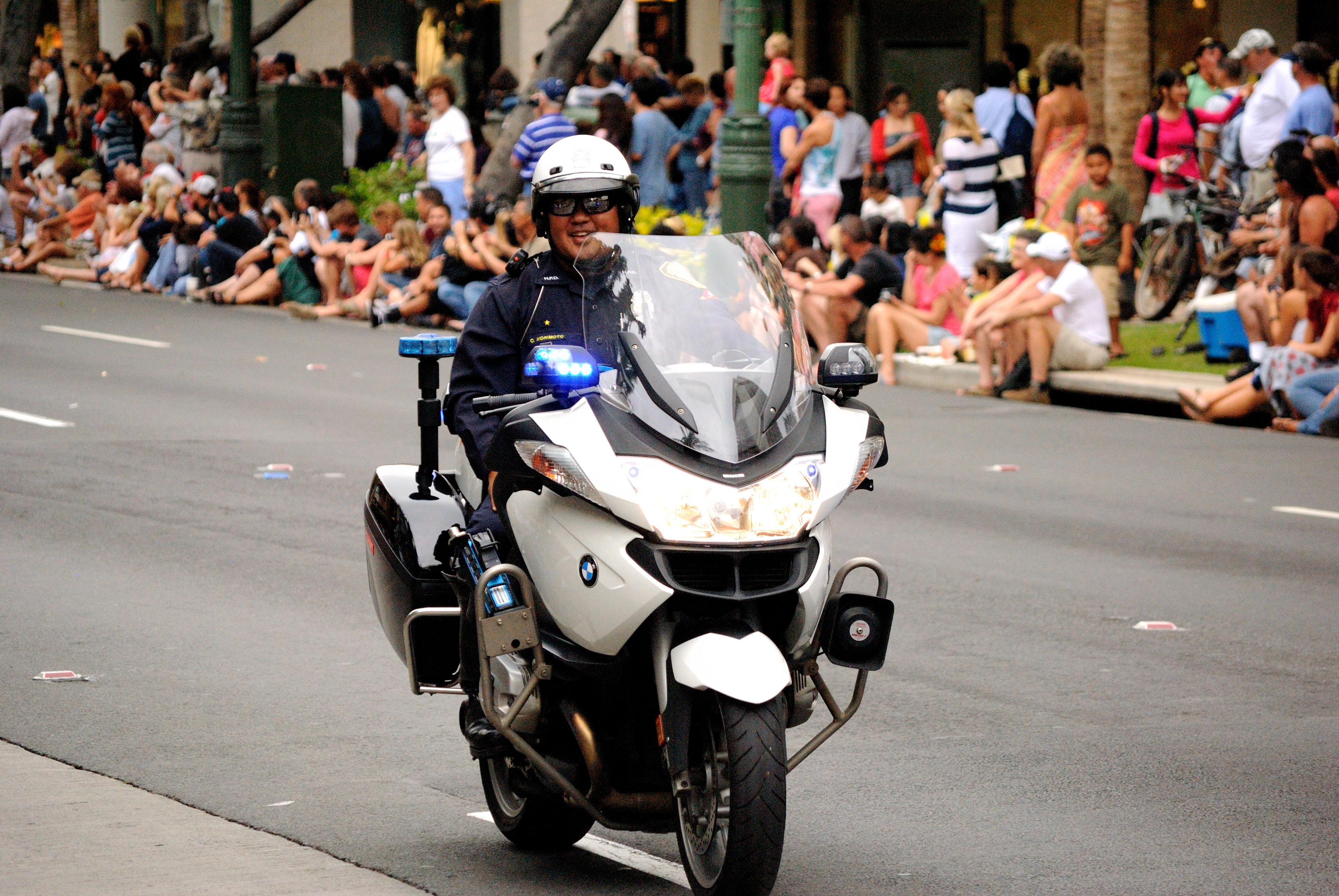 Police escort clearing the way at the beginning of the parade.